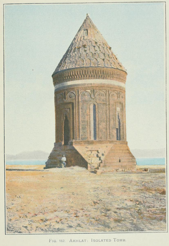 Medieval Muslim tomb in the town of Ahlat, Turkey. It is known as "Ulu Kümbet".